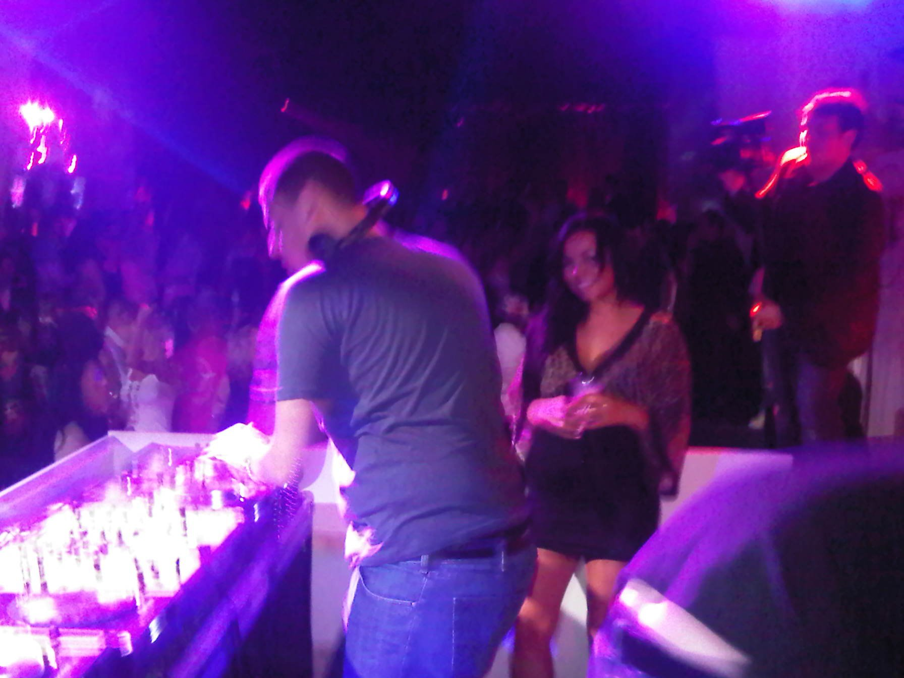 Afrojack